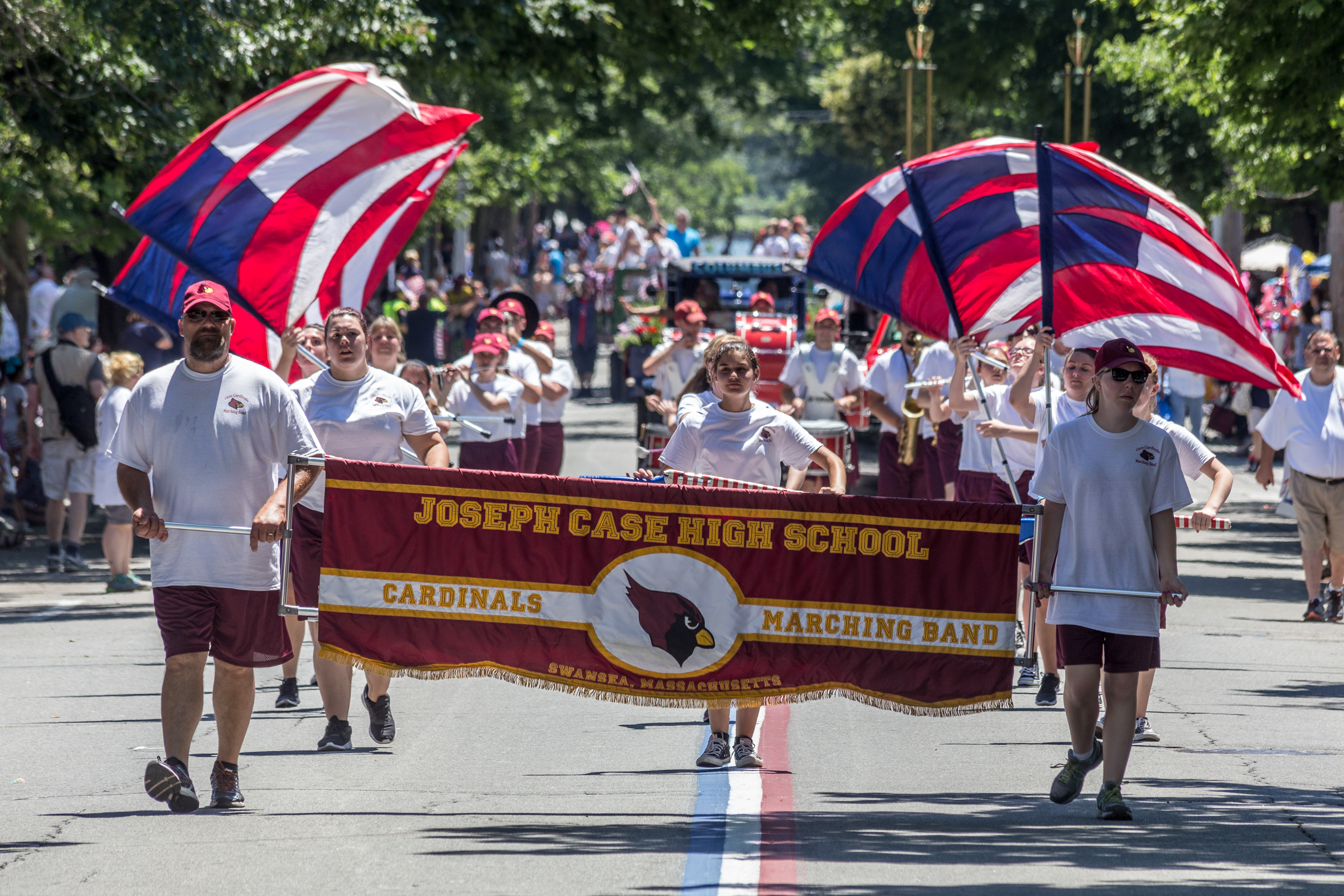 Joseph Case High School Cardinals, Swansea Massachusetts, march in the Bristol Fourth of July Parade 2017